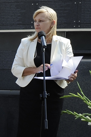 Barbara Mamińska in the Warsaw Uprising Museum.